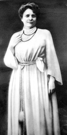 Sister Nivedita (1867–1911)